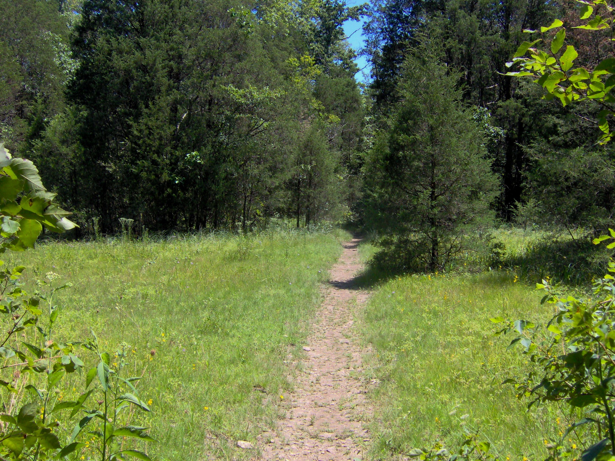 The Hidden Springs Trail crossing a cedar glade at Cedars of Lebanon State Park in Wilson County, Tennessee, in the southeastern United States.